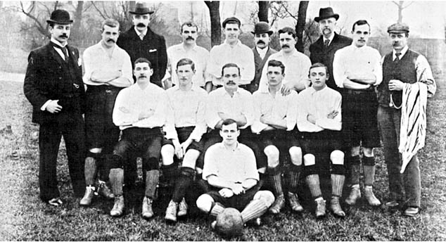 The Nottingham Forest squad that won the FA Cup. Back row: H.Hallam (Secretary), T.McInnes, Mr W.T. Hancock (Chairman), A. Ritchie, D. Allsop, unknown, A. Scott, unknown, A. Spouncer, G. Bee (Trainer); front row: C.H. Richards, Frank Forman, J. McPherson, W.A. Wragg, A. Capes; sitting: L. Benbow.